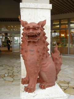 Picture of my authorship.